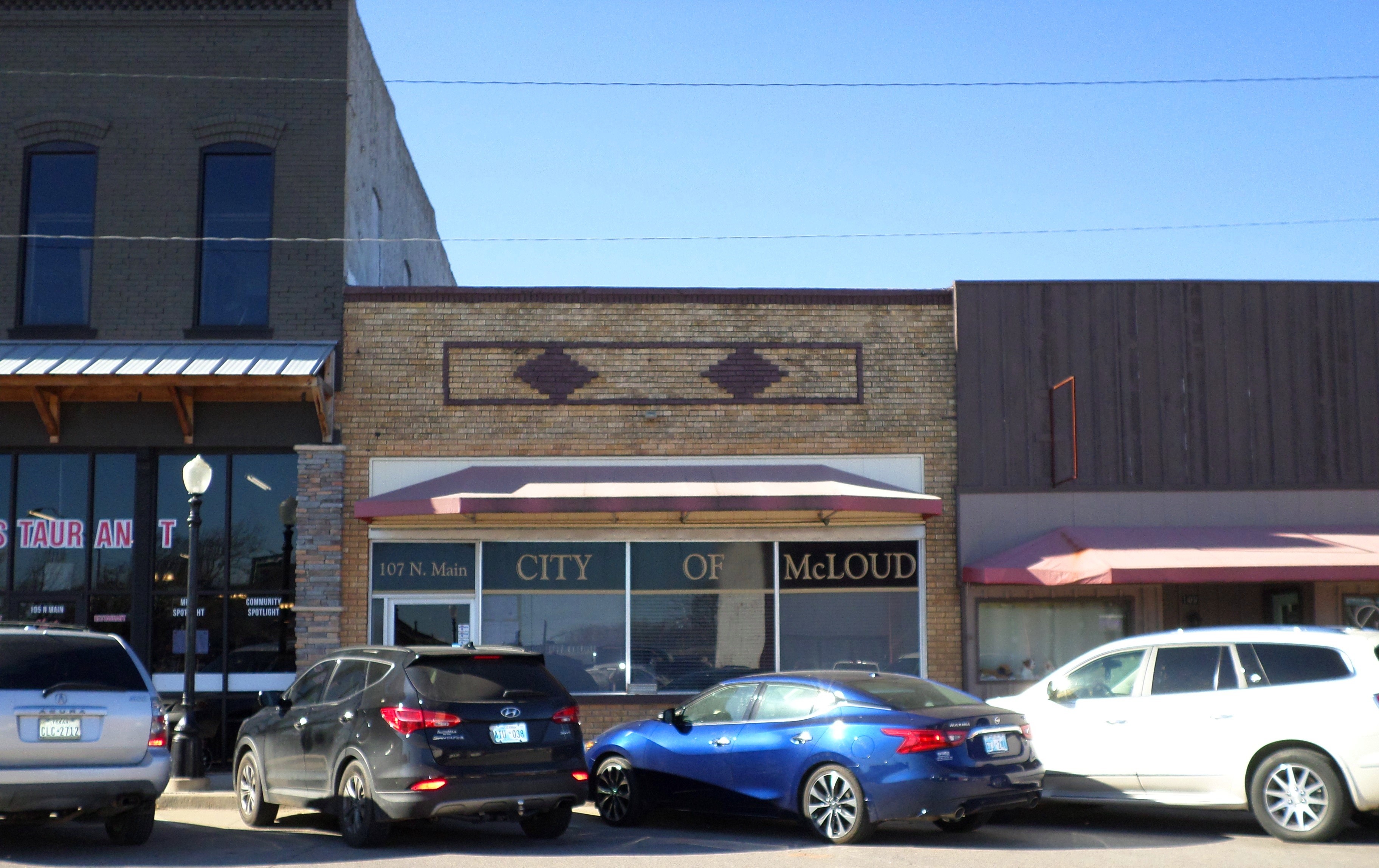 McLoud City Hall, located at 107 N. Main St., McLoud, Oklahoma.